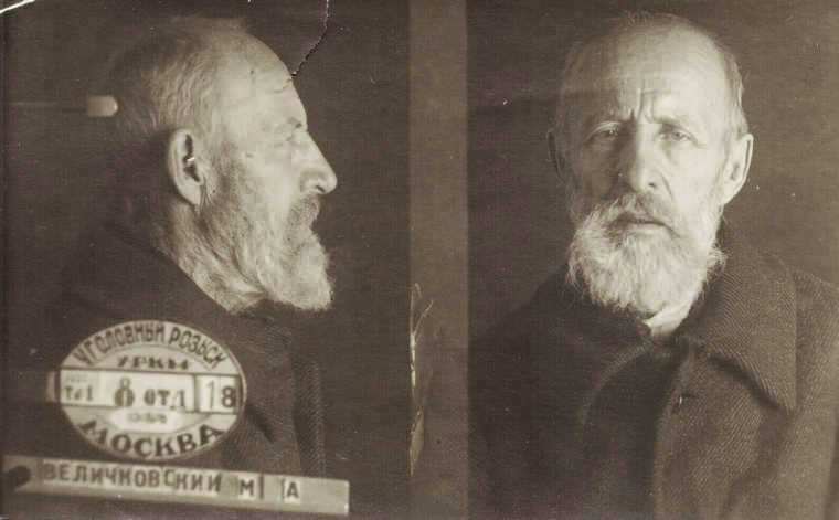 Soviet zoologist-naturalist Mihail Velichkovsky after arrest. Moscow, 1937.